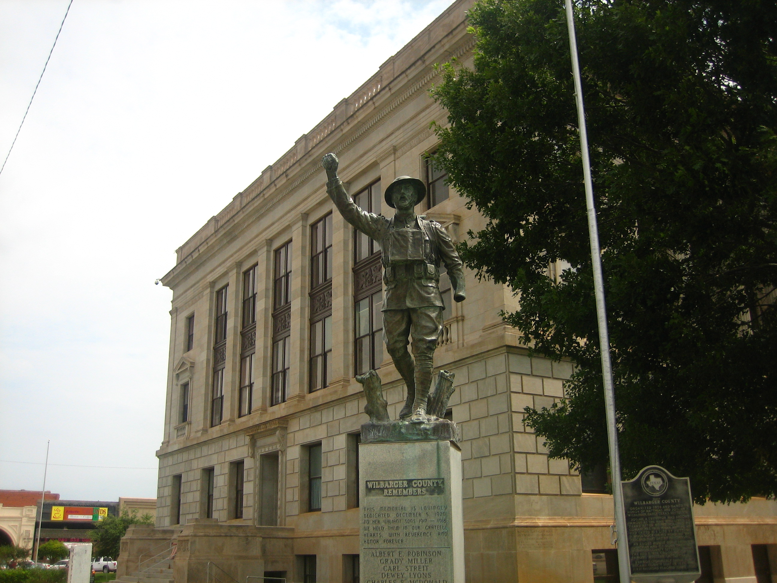 A statue of the "American Doughboy" war memorial series by E. M. Viquesney (1920), erected in 1926 in Vernon. I took photo in July 2008.Billy Hathorn (talk) 01:44, 5 July 2009 (UTC)